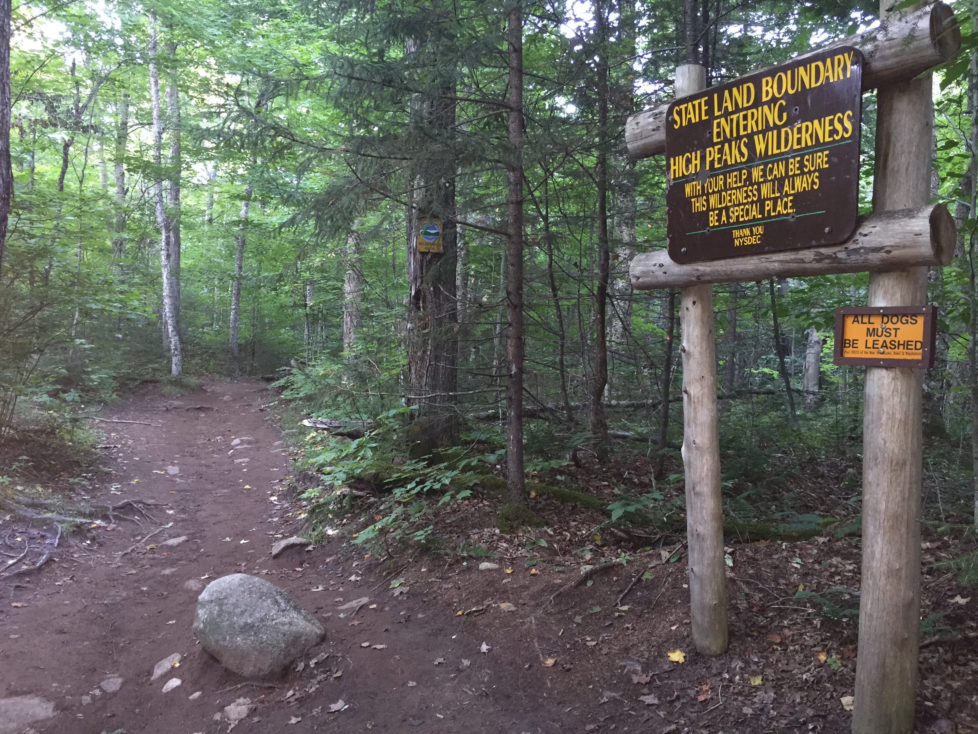 View south down the Van Hoevenberg Trail at the boundary of the High Peaks Wilderness about 0.7 miles south of the trailhead in North Elba, Essex County, New York